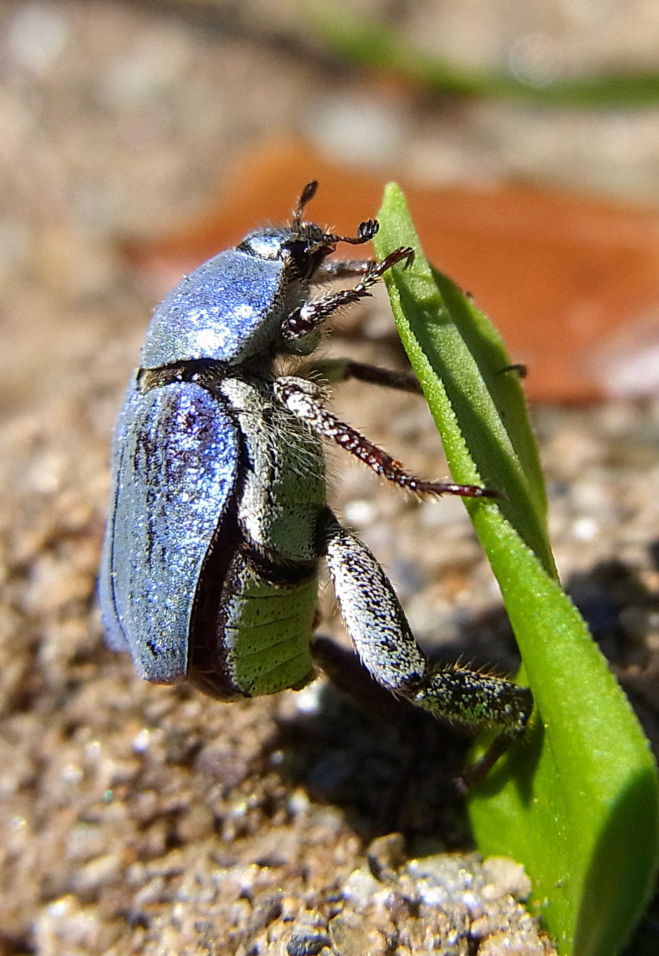 Hoplia coerulea from France, north of Carcassonne at 2011-06-09